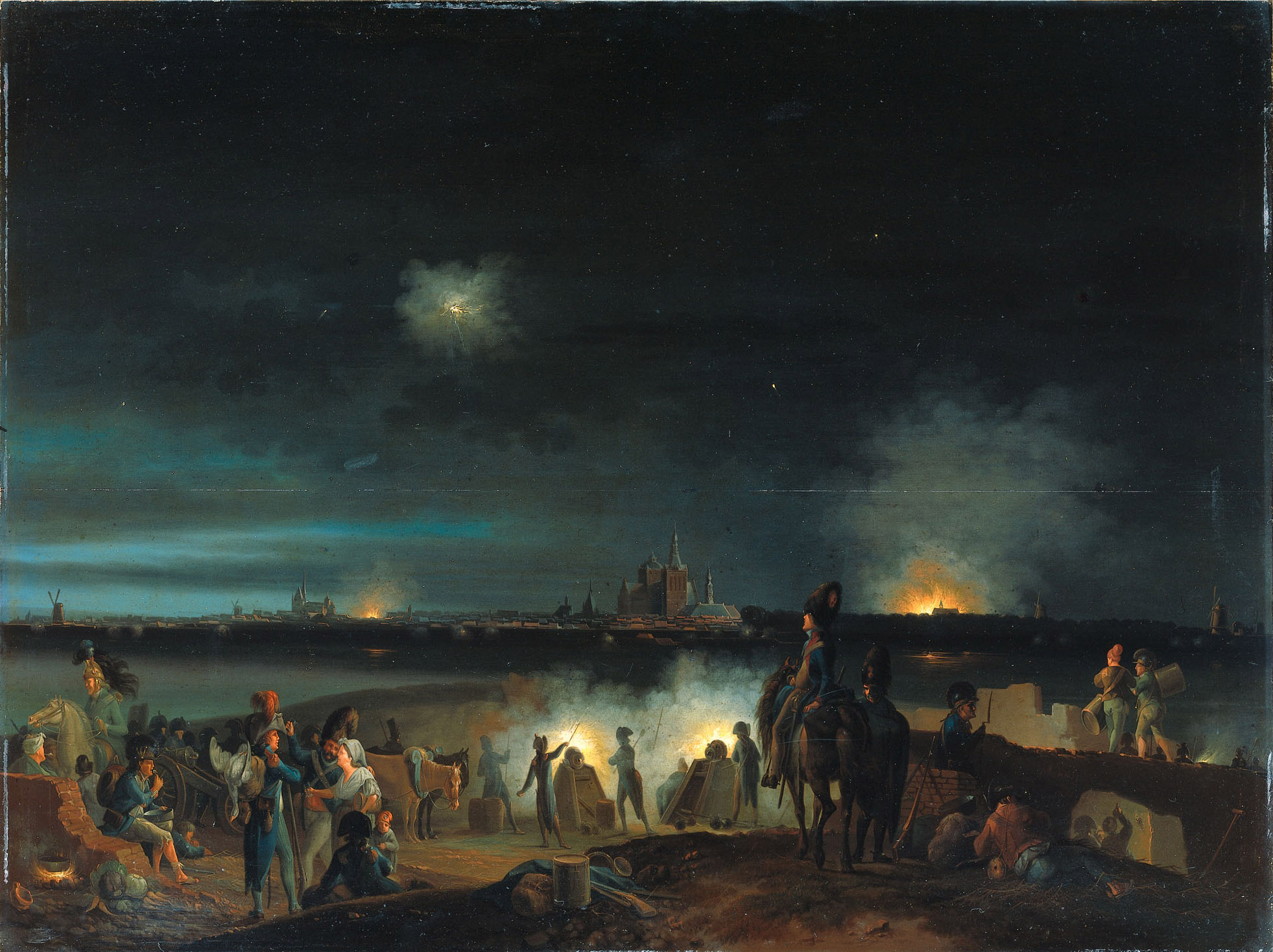 Bombardment of 's-Hertogenbosch (Den Bosch) by the French during the siege of 1794